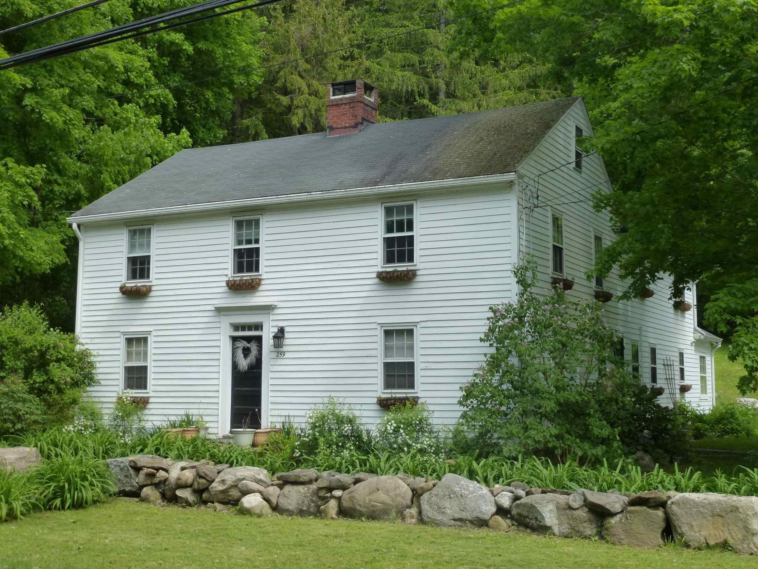 259 Cherry Brook Road (1789) Canton CT Jesse Barber House